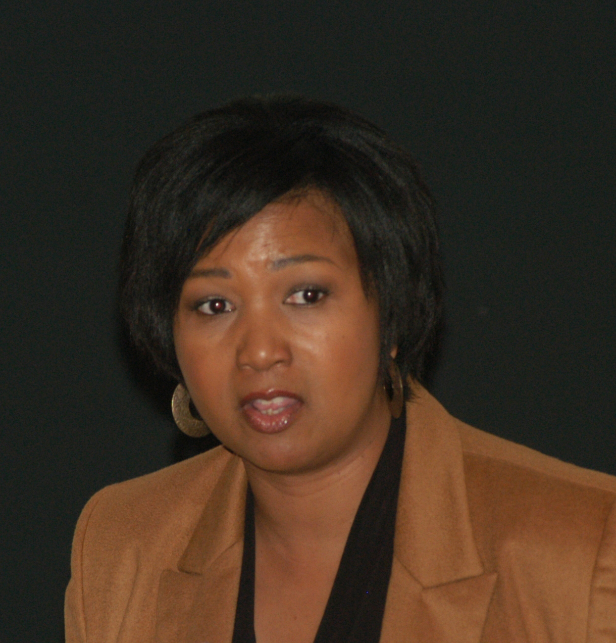 Photograph of Mae Jemison, founder and president of BioSentient Corporation and The Jemison Group, Inc., at the T. T. Chao Symposium on Innovation, November 12, 2009, Chemical Heritage Foundation, Philadelphia, PA, USA.